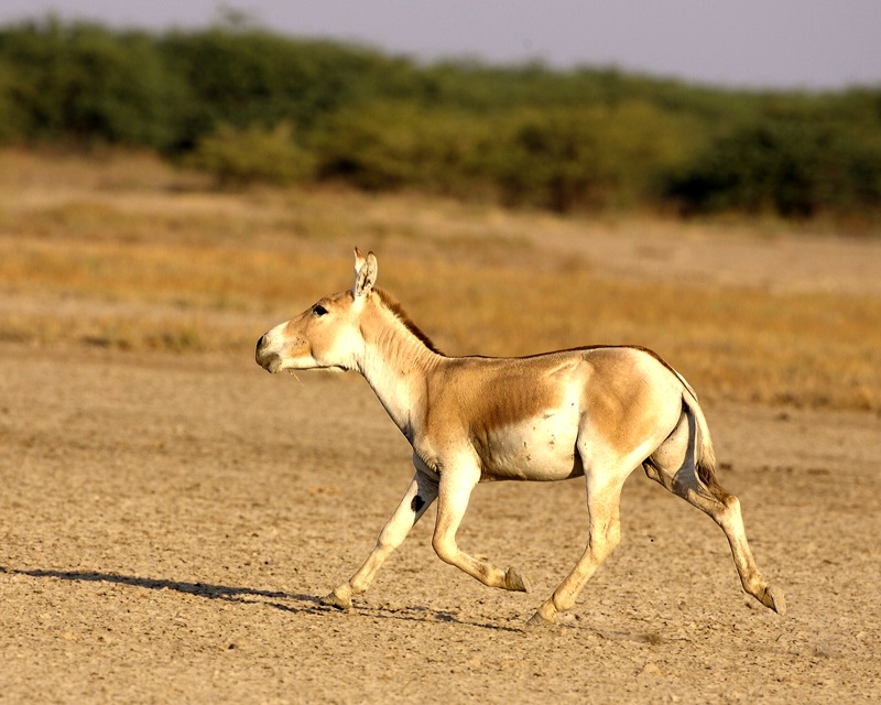 Indian wild ass (Equus hemionus khur) November 28, 2006 Little Rann of Kutch, Gujerat, India _Q0S1299_1